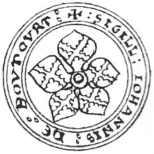 1611 Drawing by Nicholas Charles, Lancaster Herald, of seal of John de Botetourt, Lord of Mendlesham, appended to Barons' Letter 1301 (A Exemplar). John de Botetourt (d. 1324), Lord of Mendlesham, was in 1305 created by writ Baron Botetourt. Legend: Sigill(um) Johannis de Boutourt ("seal of John de Boutourt"); arms as drawn: A cinquefoil pierced, each leaf charged with a saltire engrailed.[1] Alternative or later arms were: Or, a saltire engrailed sable